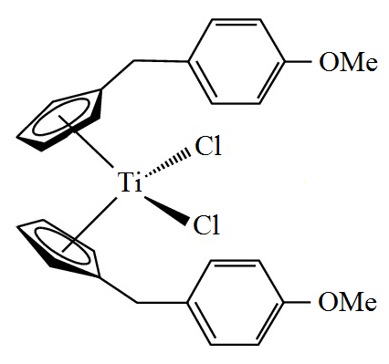 The molecular structure of Titanocene Y.